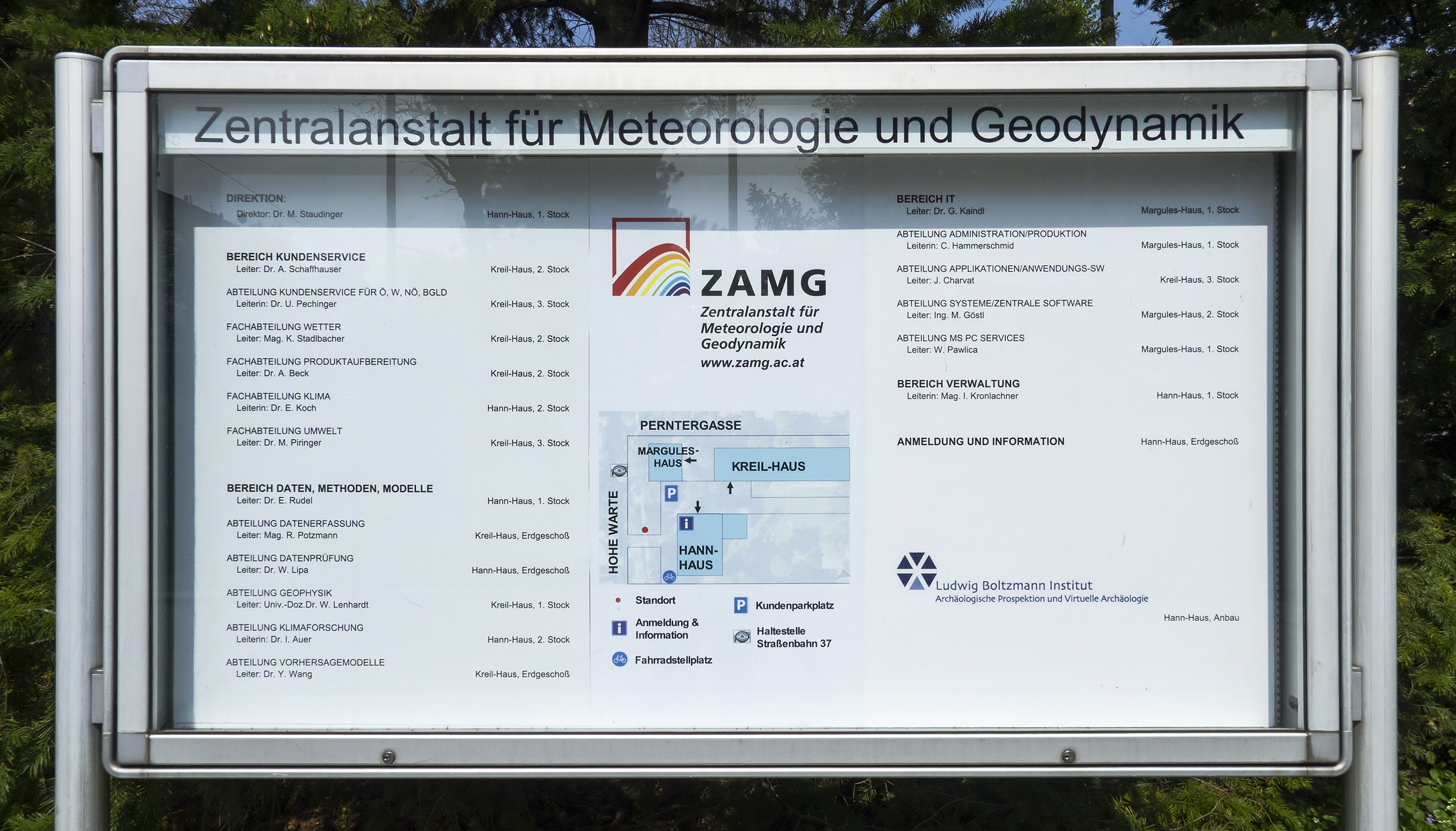 Central Institution for Meteorology and Geodynamics in Vienna 19